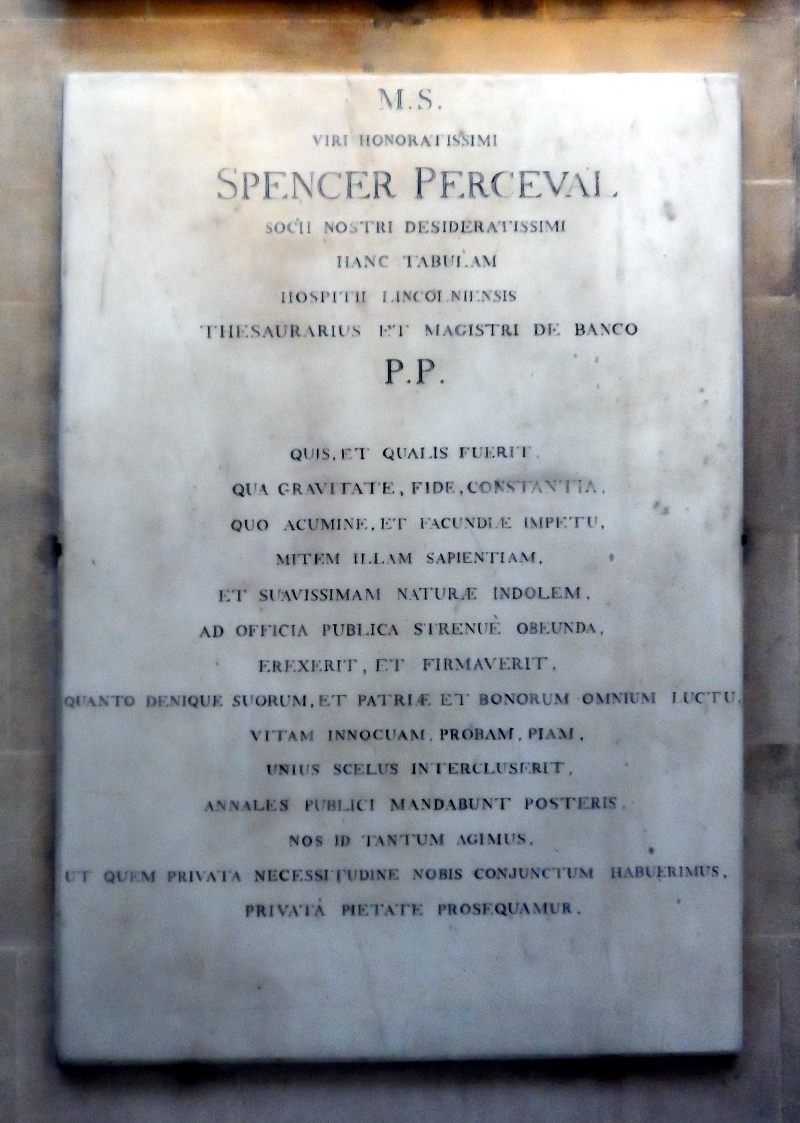 Memorial to Spencer Perceval, Lincoln's Inn, London.